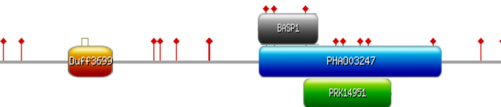 Visualization of domains and their approximate location on the FAM71E2 gene